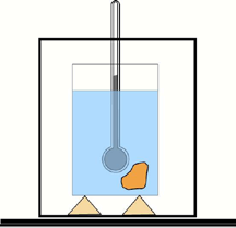 Calorímetro